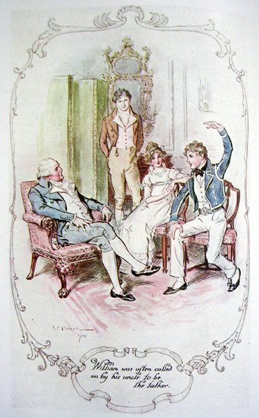 Illustration for ch.24 of Mansfield Park', in the Series of English Idylls, published by J.M Dent & Co. (London) and E.P. Dutton & Co. (New York). " William was often called on by his uncle to be the talker ".